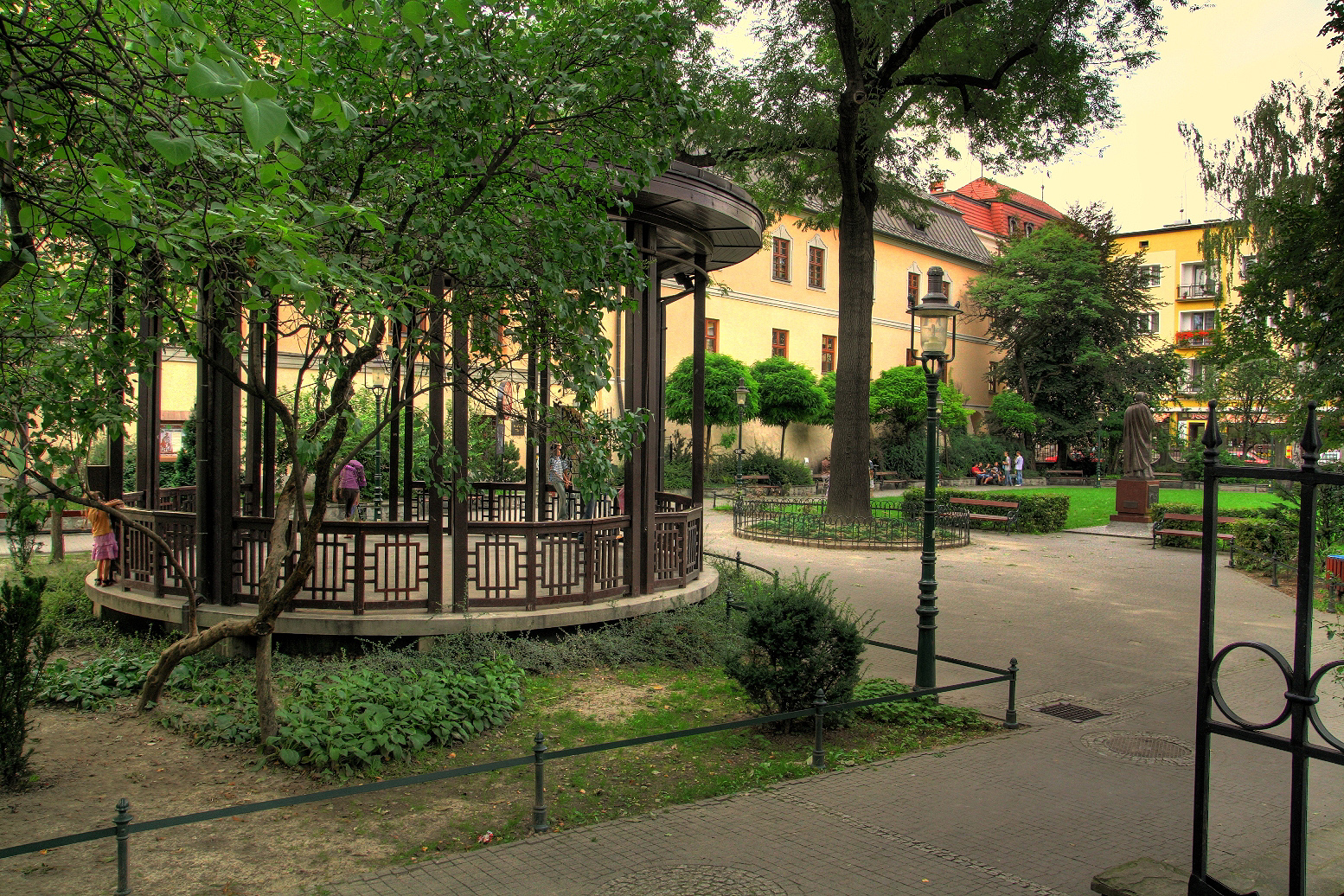 Museum of Cieszyn Silesia in Cieszyn, Poland